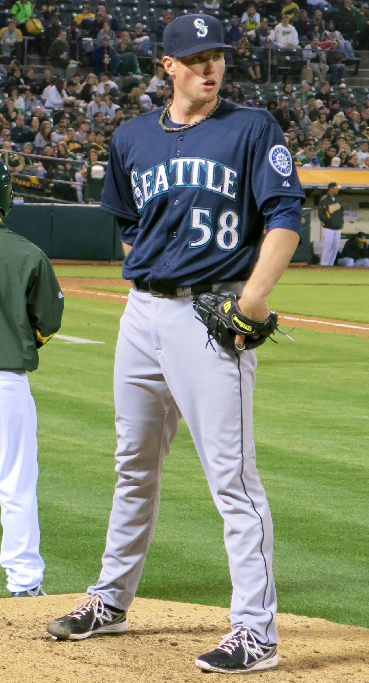 Seattle Mariners relief pitcher Carter Capps warms up in the bullpen in Oakland, California.